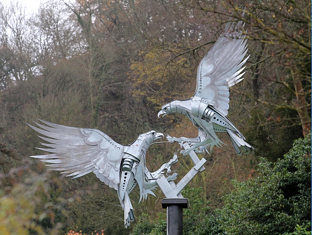 The Diamond Jubilee sculpture (detail). The sculpture, in Rosebank Gardens, Great Malvern, by artist Walenty Pytel depicts two buzzards.